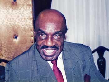 Nappy Brown at Russian Restaurant Volga, Tokyo, Japan Photo by Masahiro Sumori.